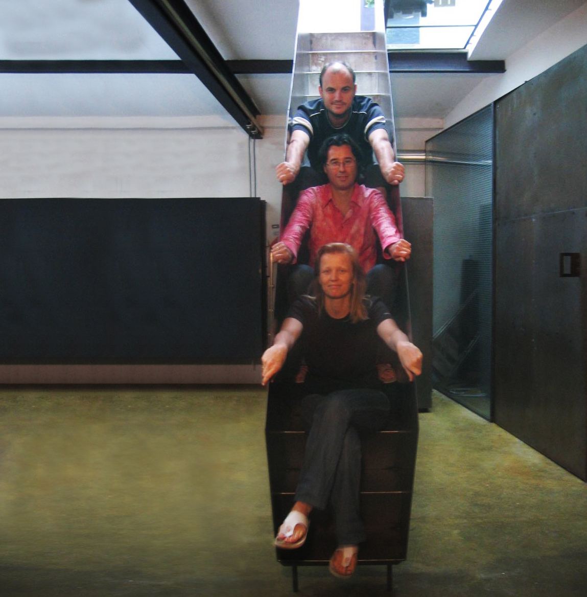 Christine Lechner, Horst Lechner, Johannes Schallhammer